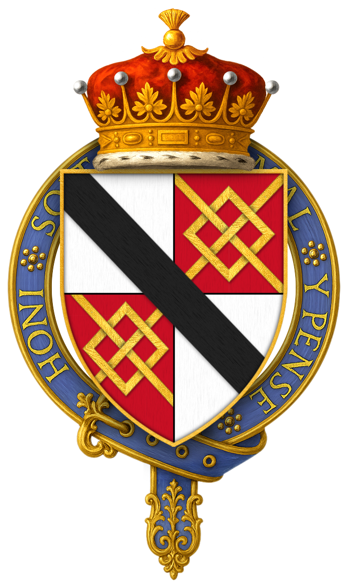 Sir Thomas le Despencer, 1st Earl of Gloucester, KG BELTZ, George Frederick, Memorials of the Order of the Garter from Its Foundation to the Present Time, London: William Pickering, 1841. “ Thomas, Sixth Lord Le Despencer -- Earl of Gloucester… Arms: Quarterly, Argent and Gules; in the second and third quarters a fret Or; over all a bend Sable. ”